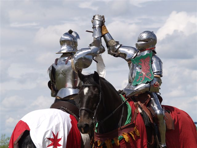 Tewkesbury Medieval Festival 2008